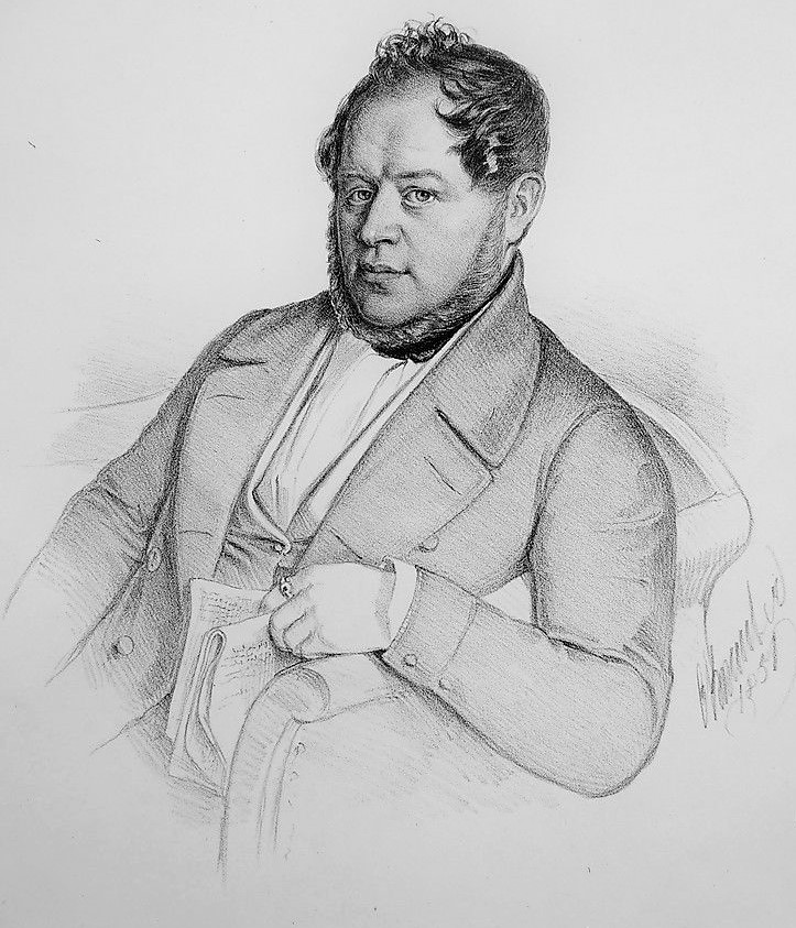 Philipp Tillmann (* 1809 in Freinsheim) Bayerischer Landtagsabgeordneter